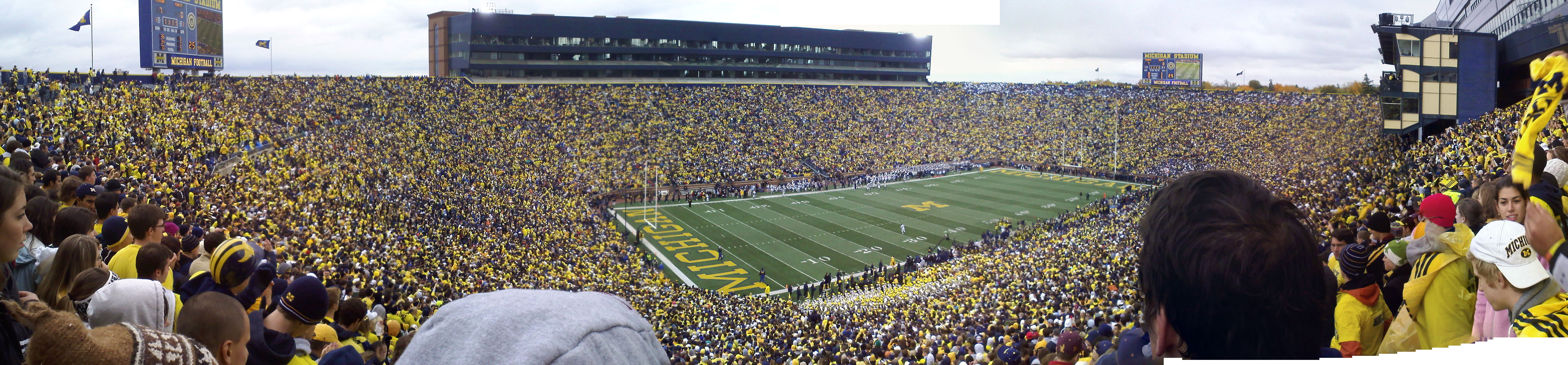 A panoramic view of Michigan Stadium during the Michigan - Penn State football game on October 24, 2009.